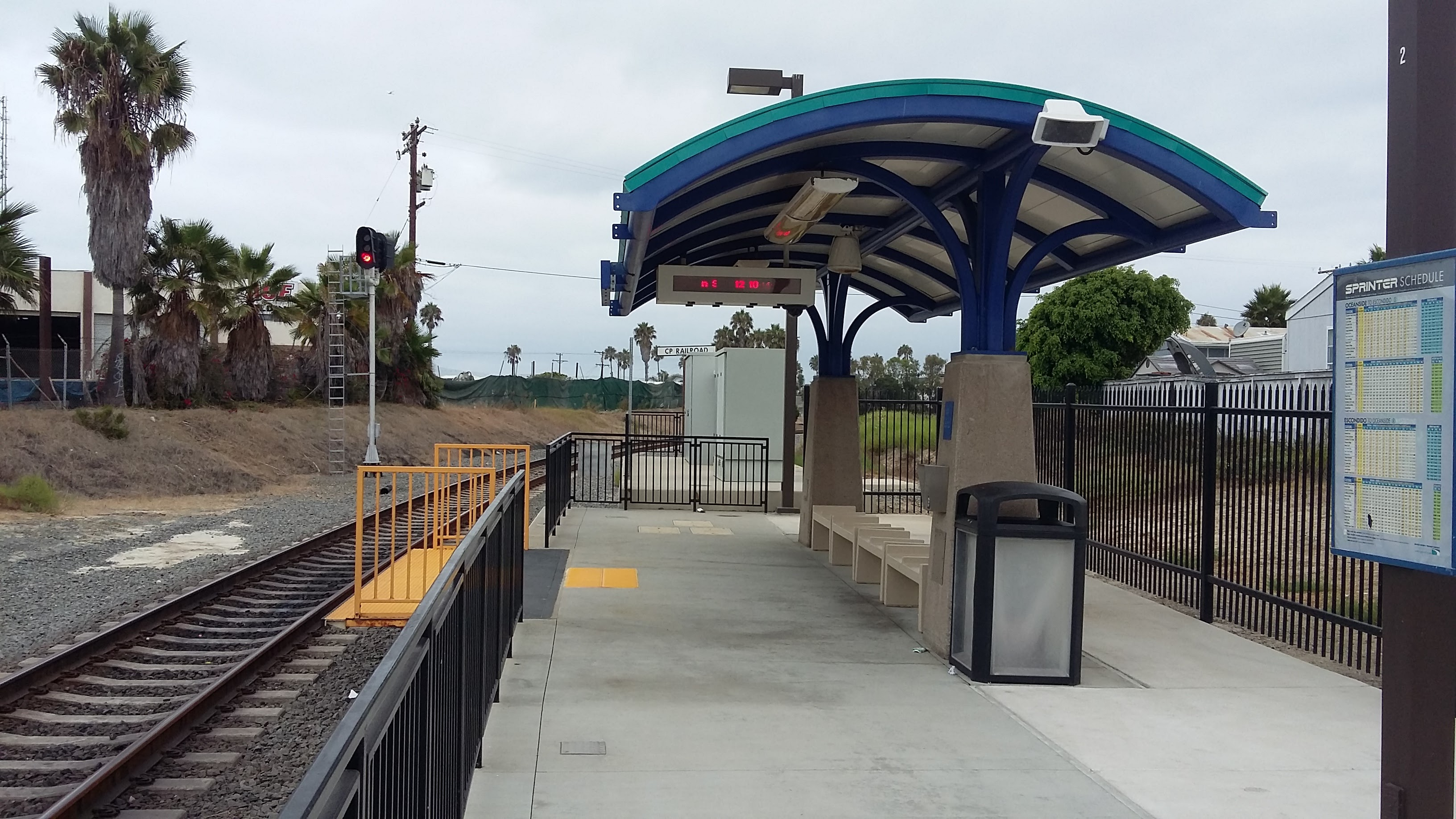 Coast Highway station platform shelter